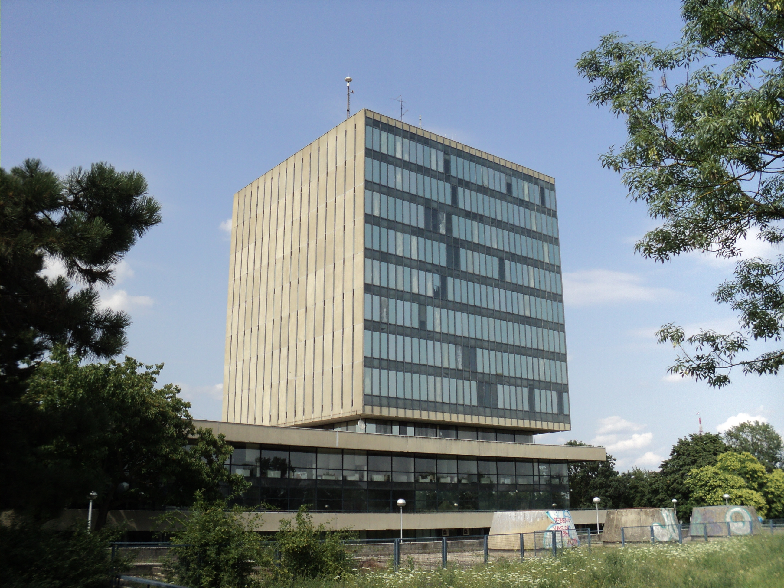 Ministry of Tourism building in Zagreb, colloquially known as "Kockica". Built in 1968. The building was the headquarters of the former Central committee of the League of the communists of Croatia. Author of the building - architect Ivo Vitić.